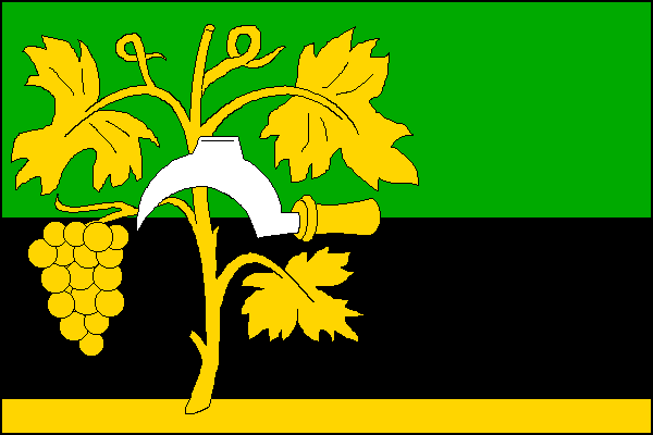 Municipal flag of Oslavany town, Brno-Country District, Czech Republic.